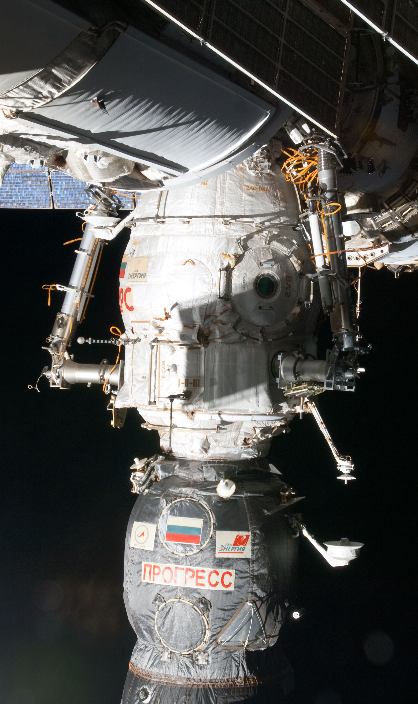 The Pirs docking compartment, one of the modules of the International Space Station, as seen by one of the crew members of the Space Shuttle Endeavour during STS-130. A Russian Progress spacecraft can be seen docked to the module at the top of the image, and part of the Zarya module is visible at the bottom. Two Strela cargo cranes can also be seen mounted to the module.